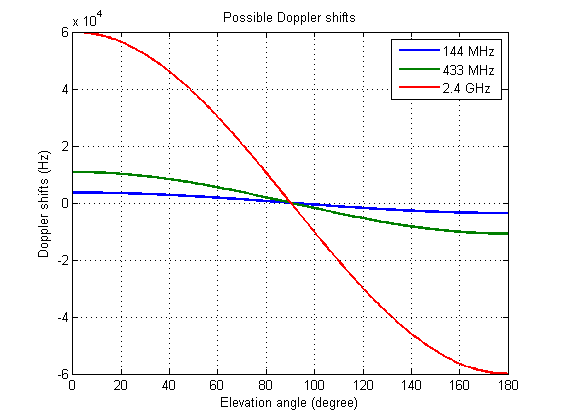 Possible Doppler shifts in dependance of the elevation angle (orbit altitudde h = 750 km). Fixed ground station.